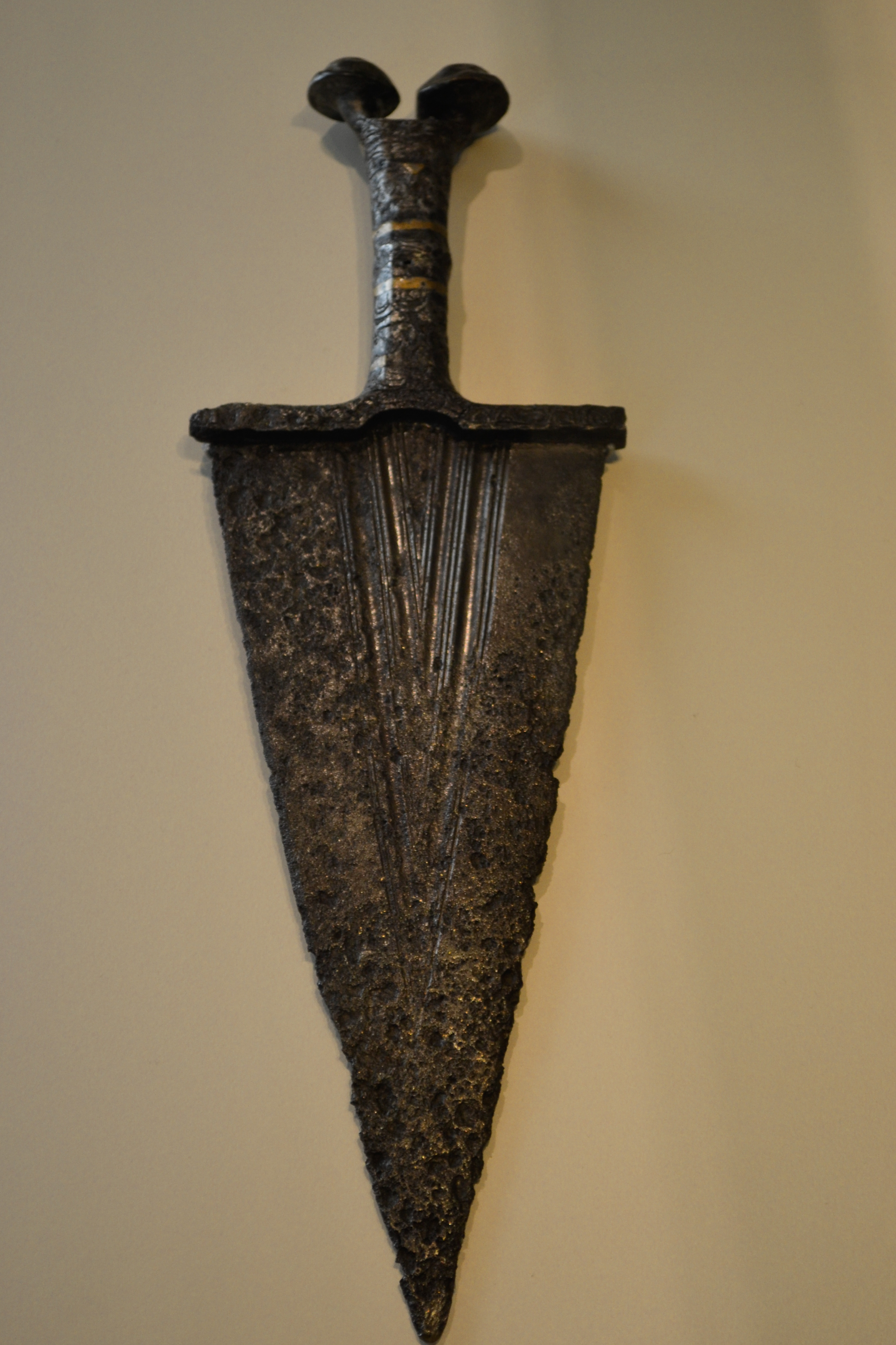 An antenna-hilted Iberian dagger of wrought iron.